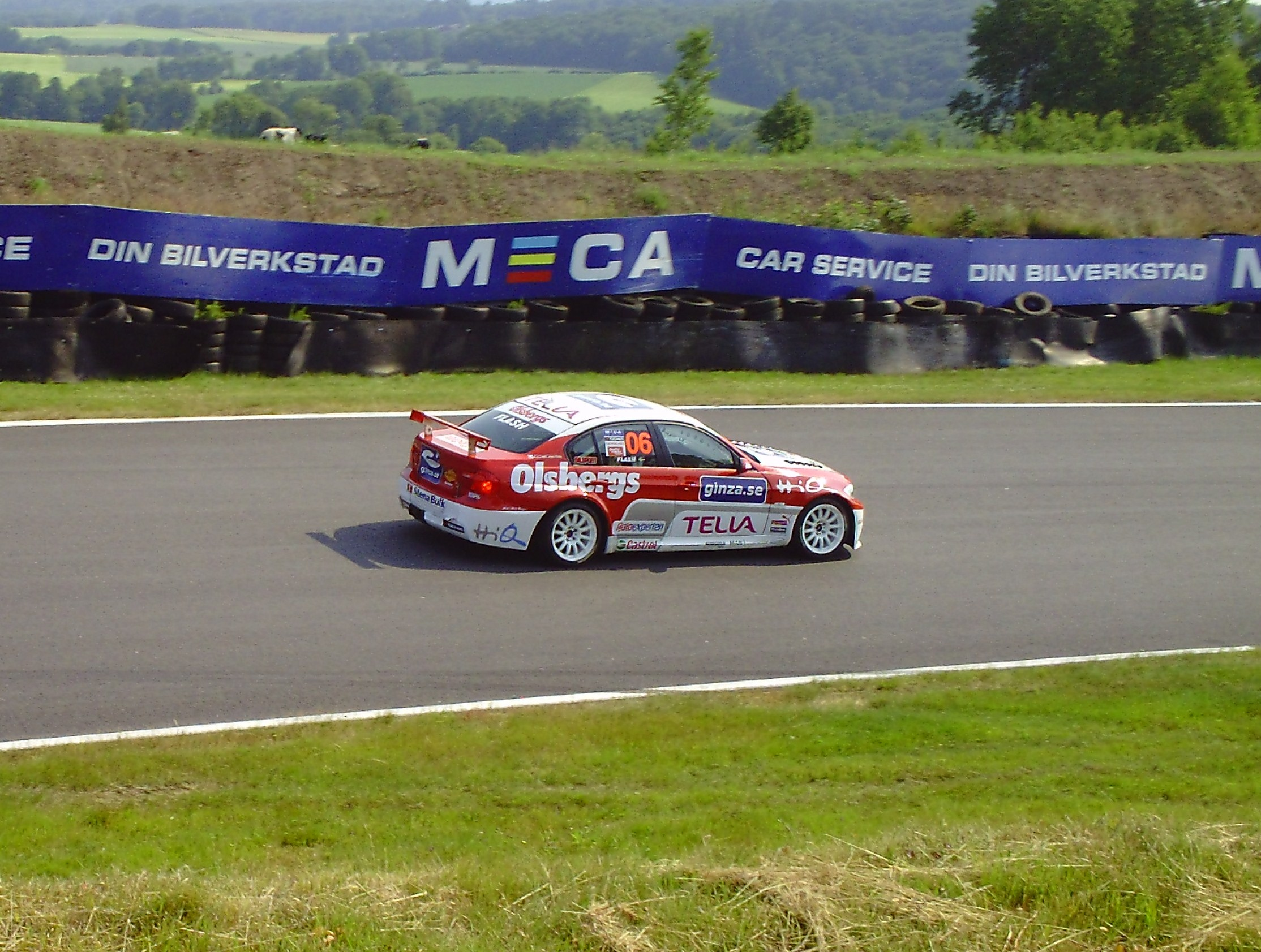 Jan "Flash" Nilsson in a BMW 320si for Flash Engineering in Swedish Touring Car Championship at Falkenbergs Motorbana 2010.